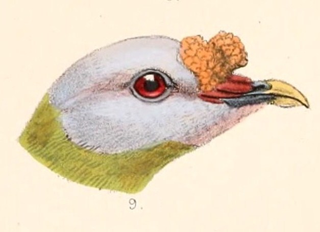 « Ptilinopus granulifrons » = Ptilinopus granulifrons (Carunculated Fruit Dove) - head